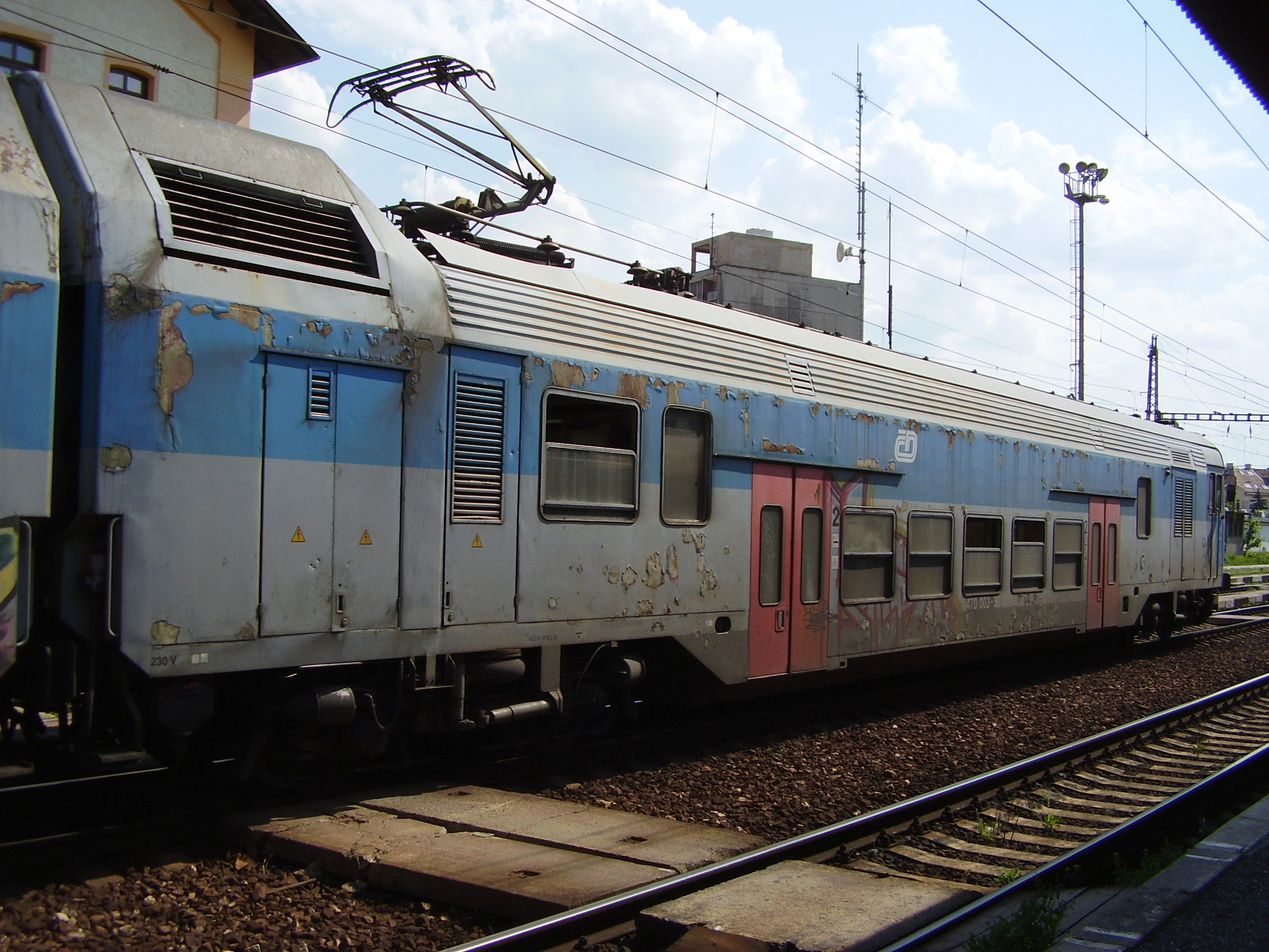 Electric multiple unit 470 ČD in Prague-Radotín